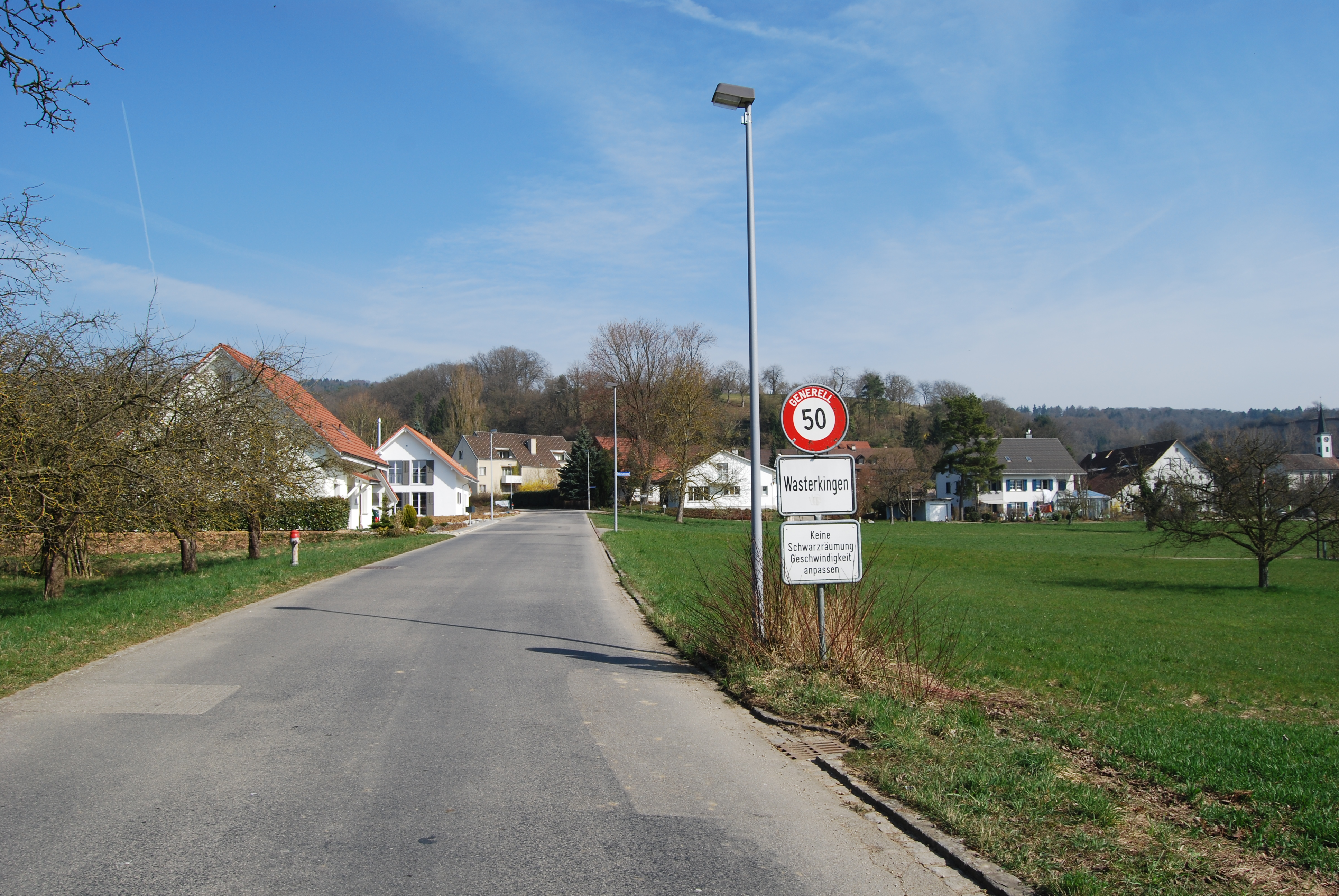 Village entry of Wasterkingen, canton of Zürich, SwitzerlandEsperanto: Vilaĝeniro de Wasterkingen, Kantono Zürich, Svislando